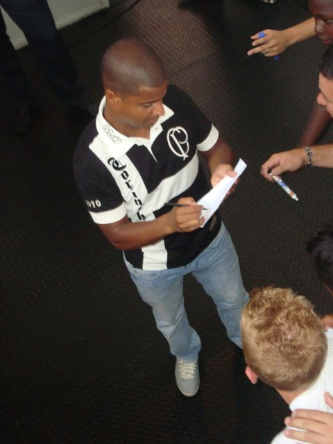 Marcelinho Carioca (born Marcelo Pereira Surcin in February 1, 1971) is a famous Brazilian soccer player